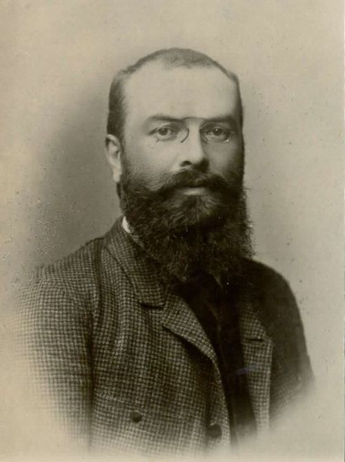 Jurij Šubic (1855-1890), slovenian painter